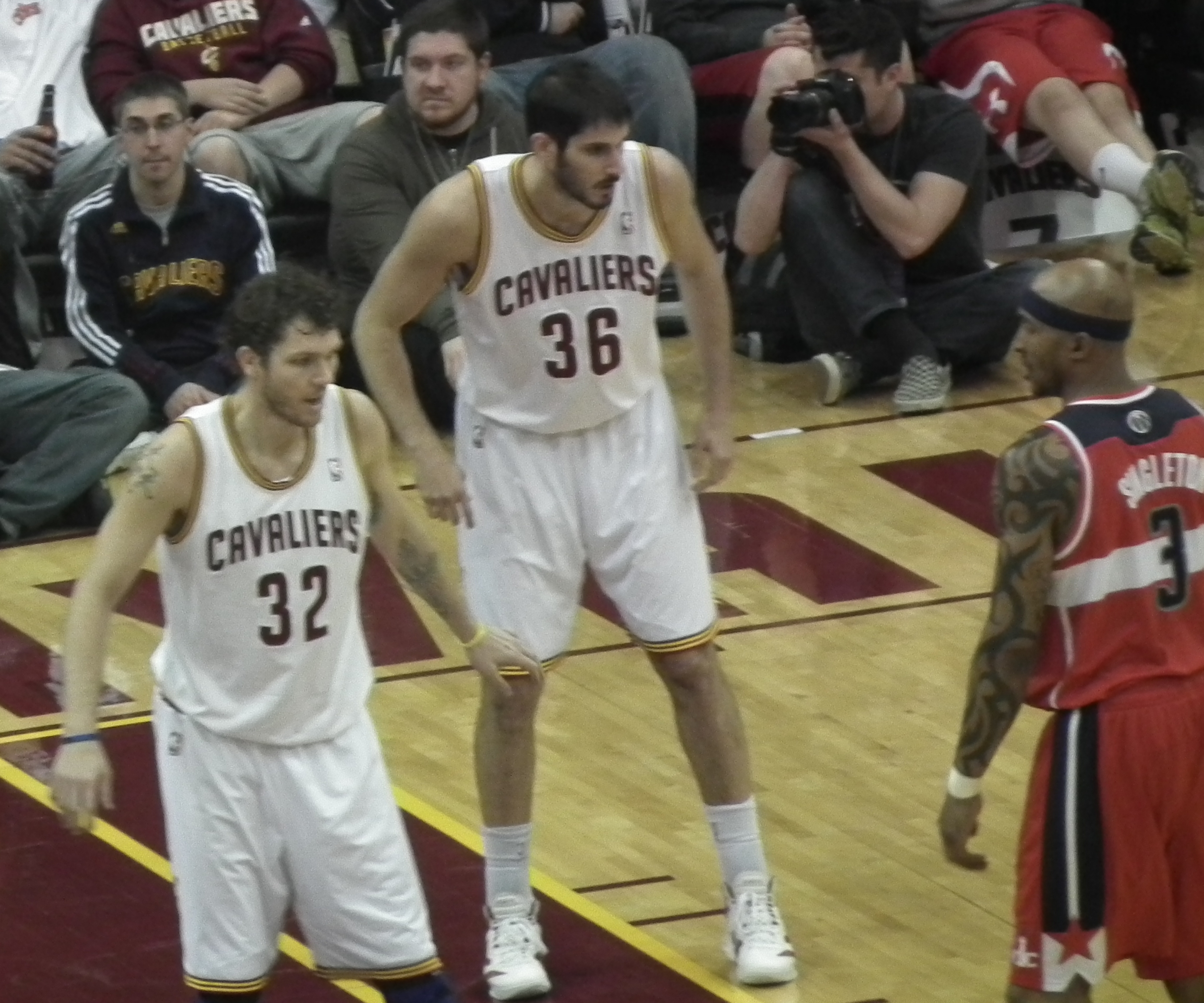 Cleveland Cavaliers vs Washington Wizards.